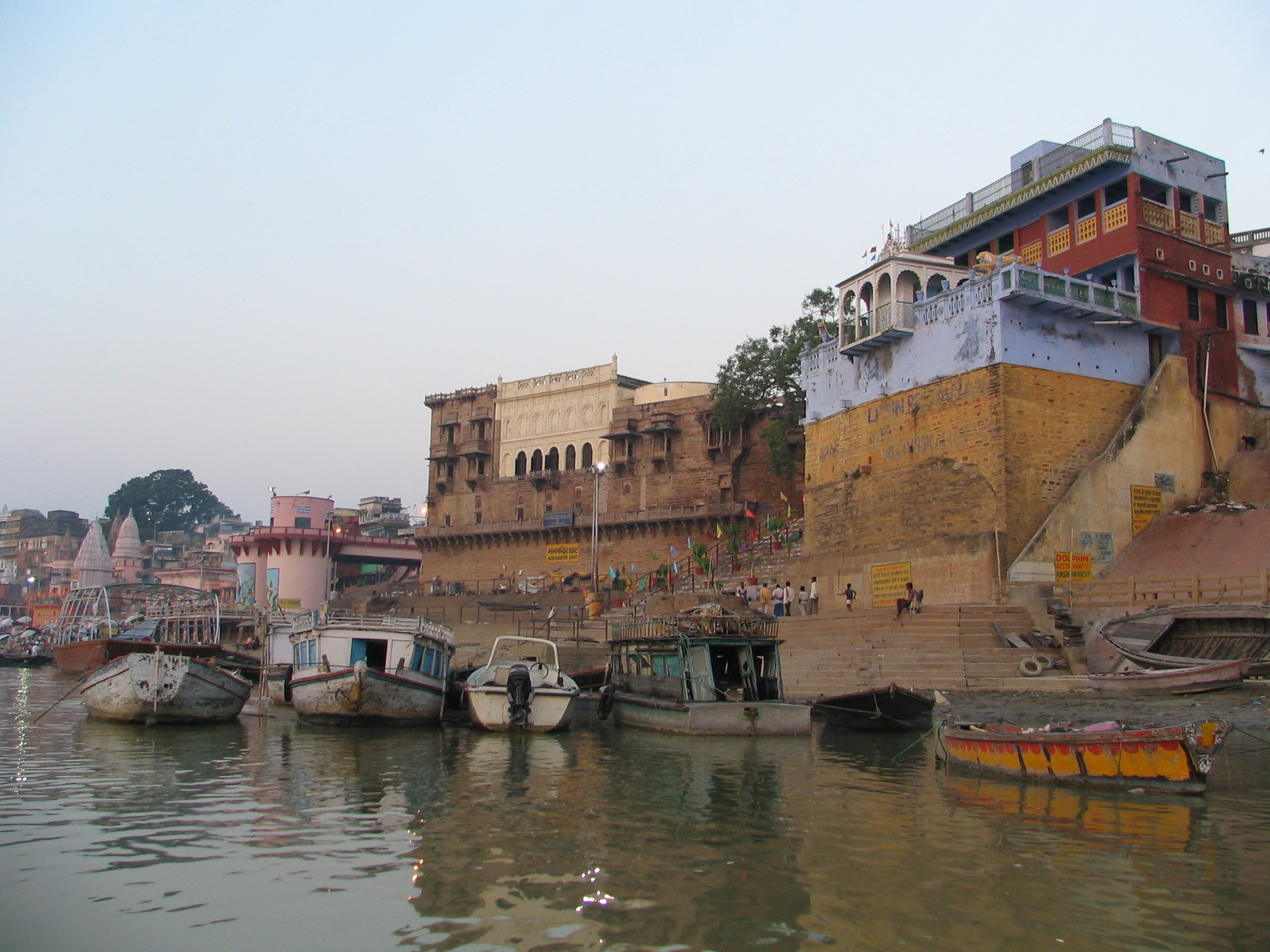 See Varanasi Development Cooperation Handbook/Stories/Responsible Development - Varanasi The Varanasi Heritage Dossier Kautilya Society Play media Vrinda Dar - How we got involved in heritage protection of Varanasi